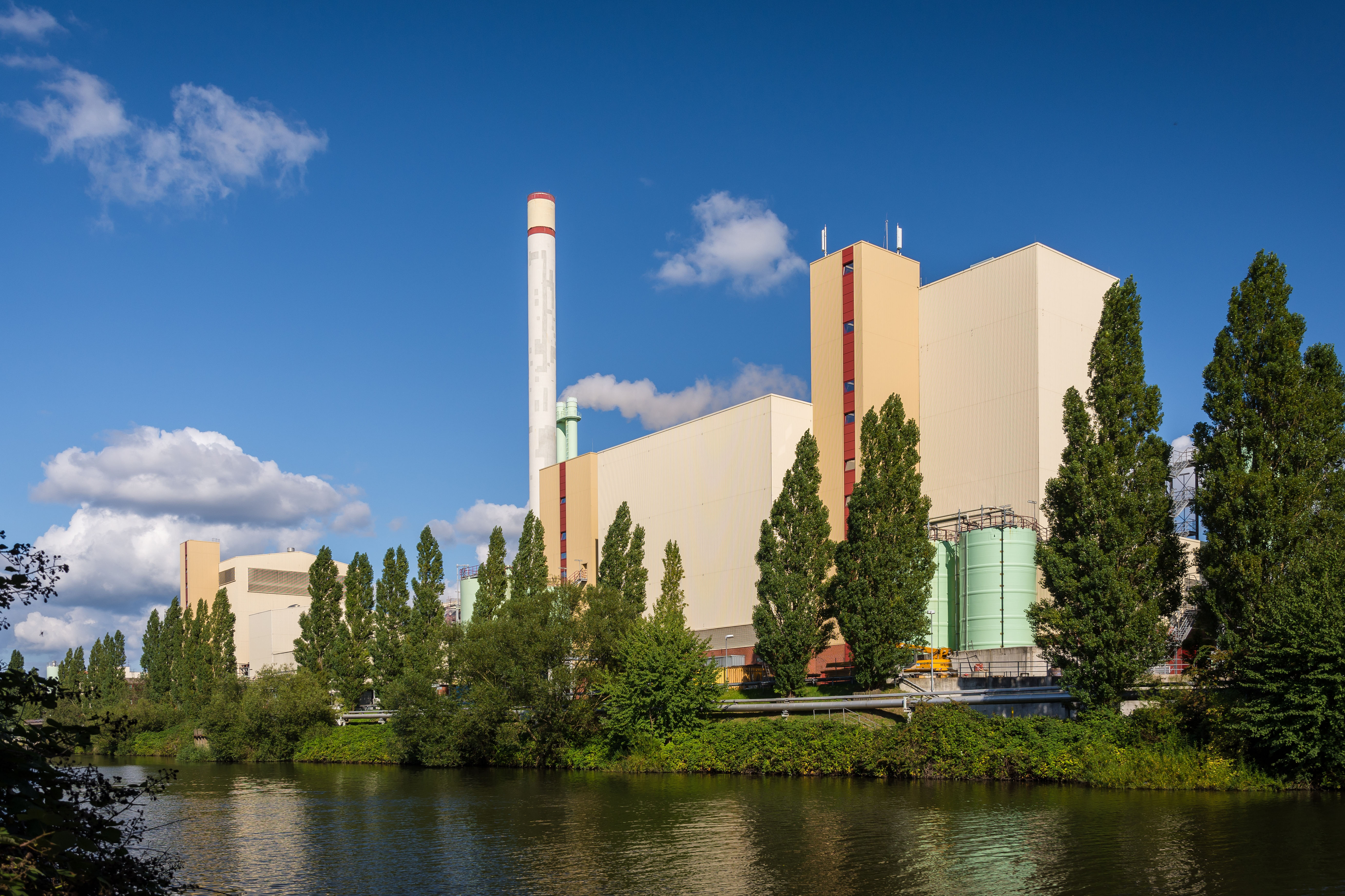 Waste incinceration plant, Müllverwertung Borsigstraße, in Billbrook, Hamburg, Germany. The picture shows only a small part of the overall plant. According to OpenStreetMap, the visible part in the foreground is the district heating station fed by waste wood. The body of water in the foreground is the Tiefstackkanal.